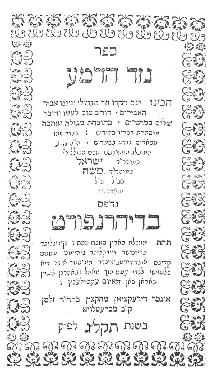 front page of "Nezed Ha-Dema'", by rabbi Yisrael of Zamosc, printed Dyhernfurth 1773. scanned by User:Netan'el